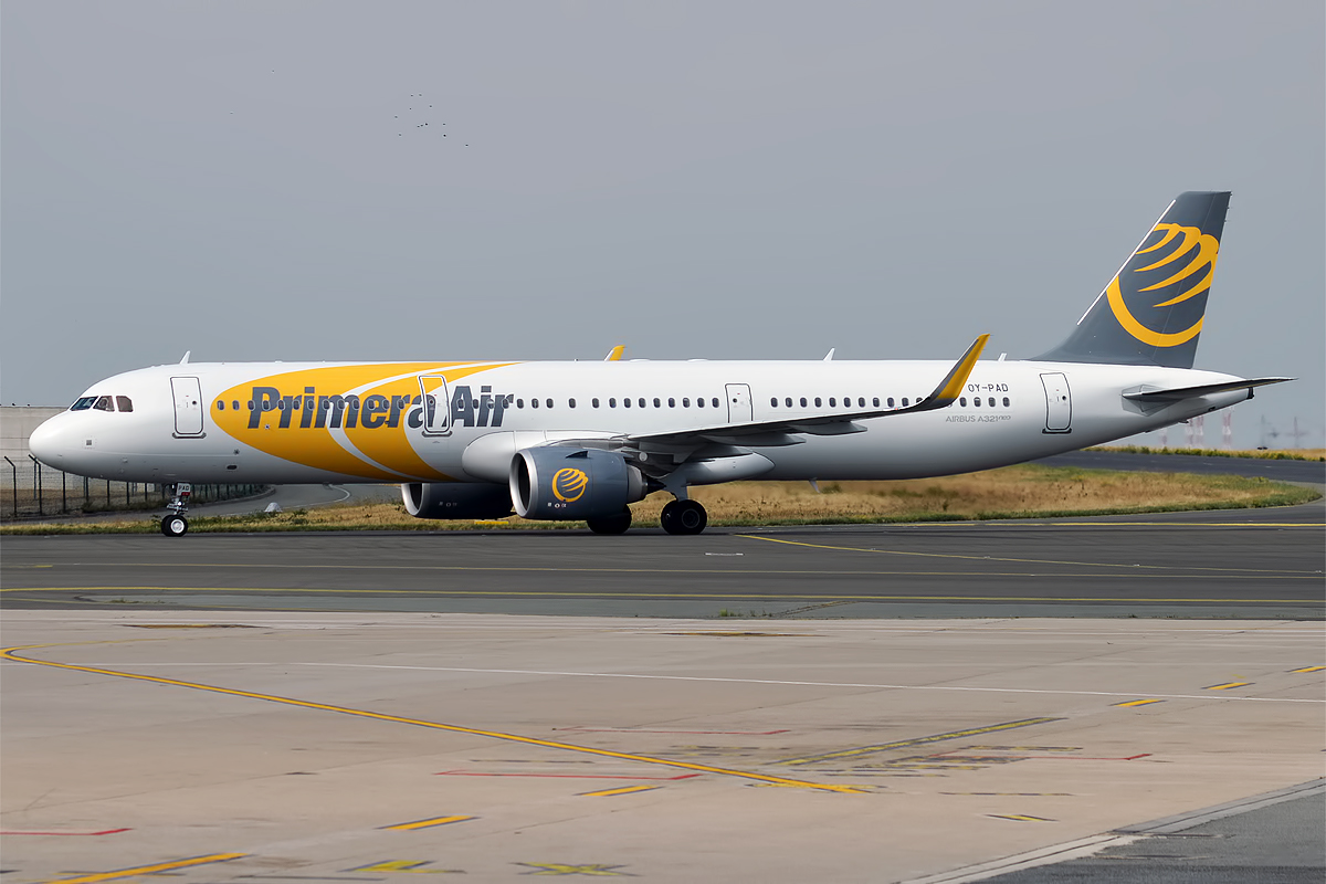 Primera Air Scandinavia, OY-PAD, Airbus A321-251N